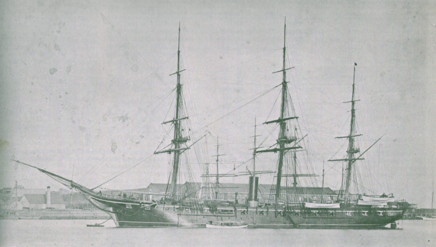 United States Navy corvette USS Hartford at Mare Island Navy Yard, Vallejo, California